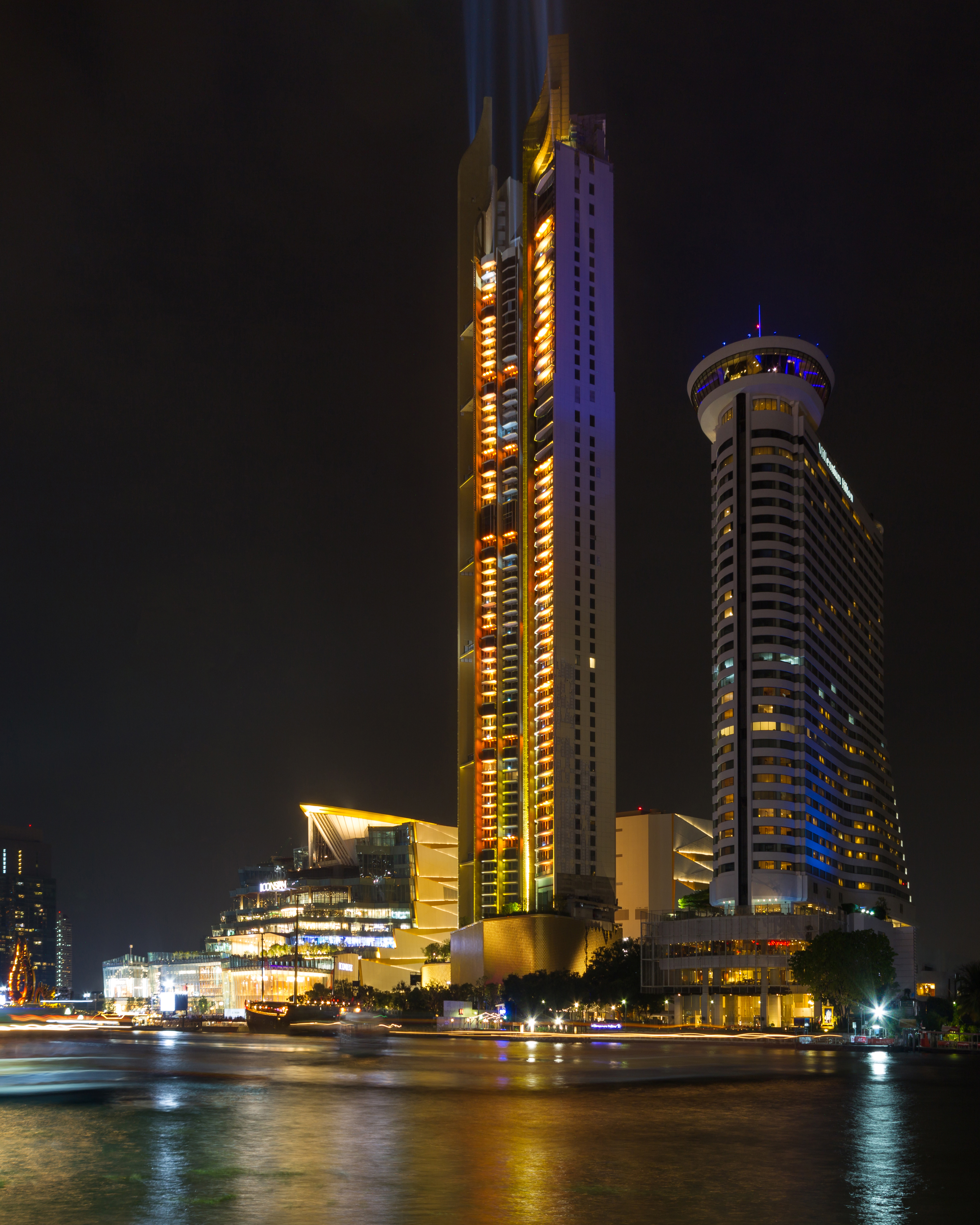 Iconsiam Opening ceremony at Bangkok, Thailand on 9 November 2018.